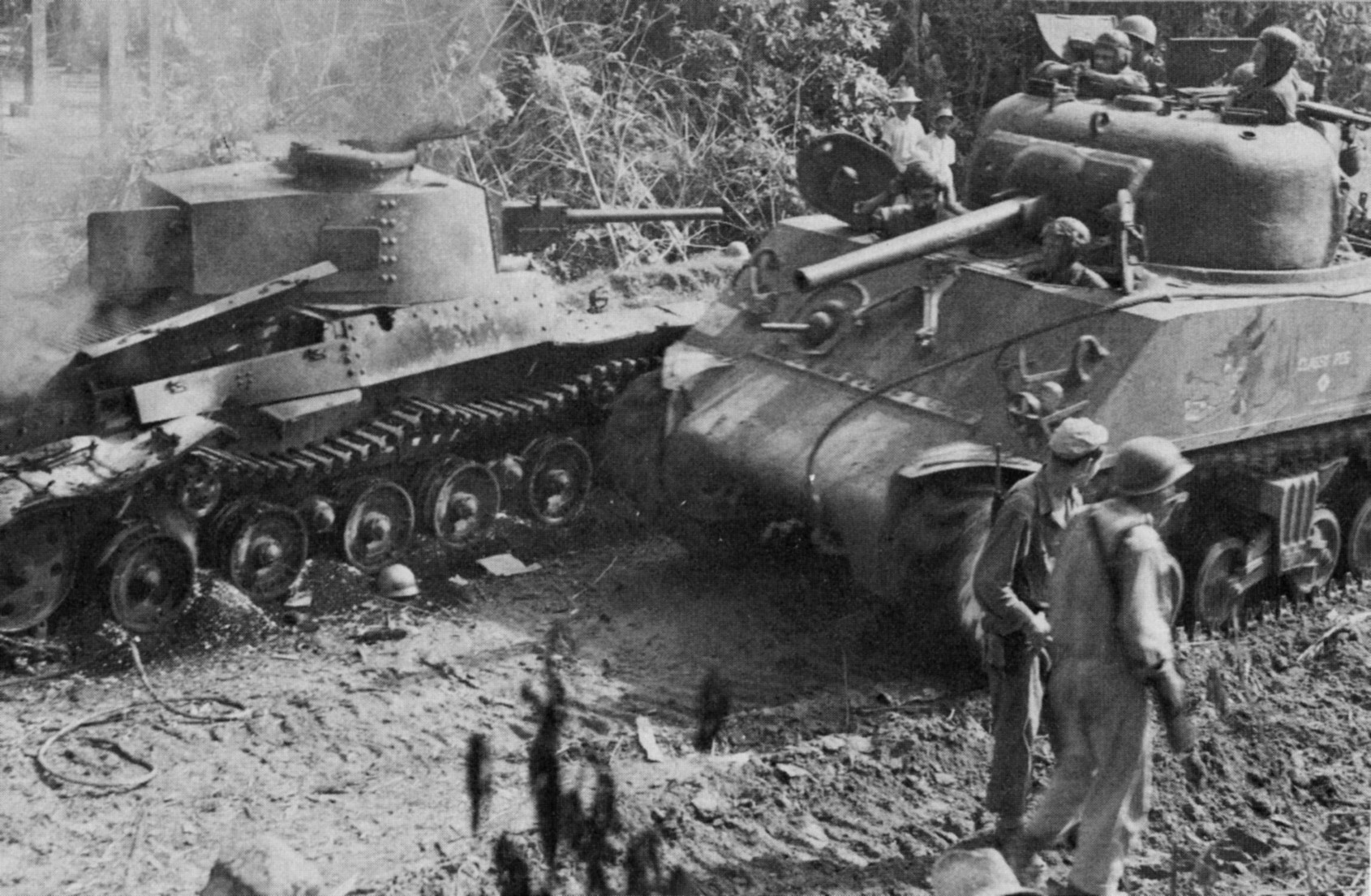 American Sherman tank after destroying a Japanese tank. Original caption: "M4 Sherman passing destroyed Japanese Shinhoto Chiha tank on Luzon-in the Phillipines 17 Jan-1945."